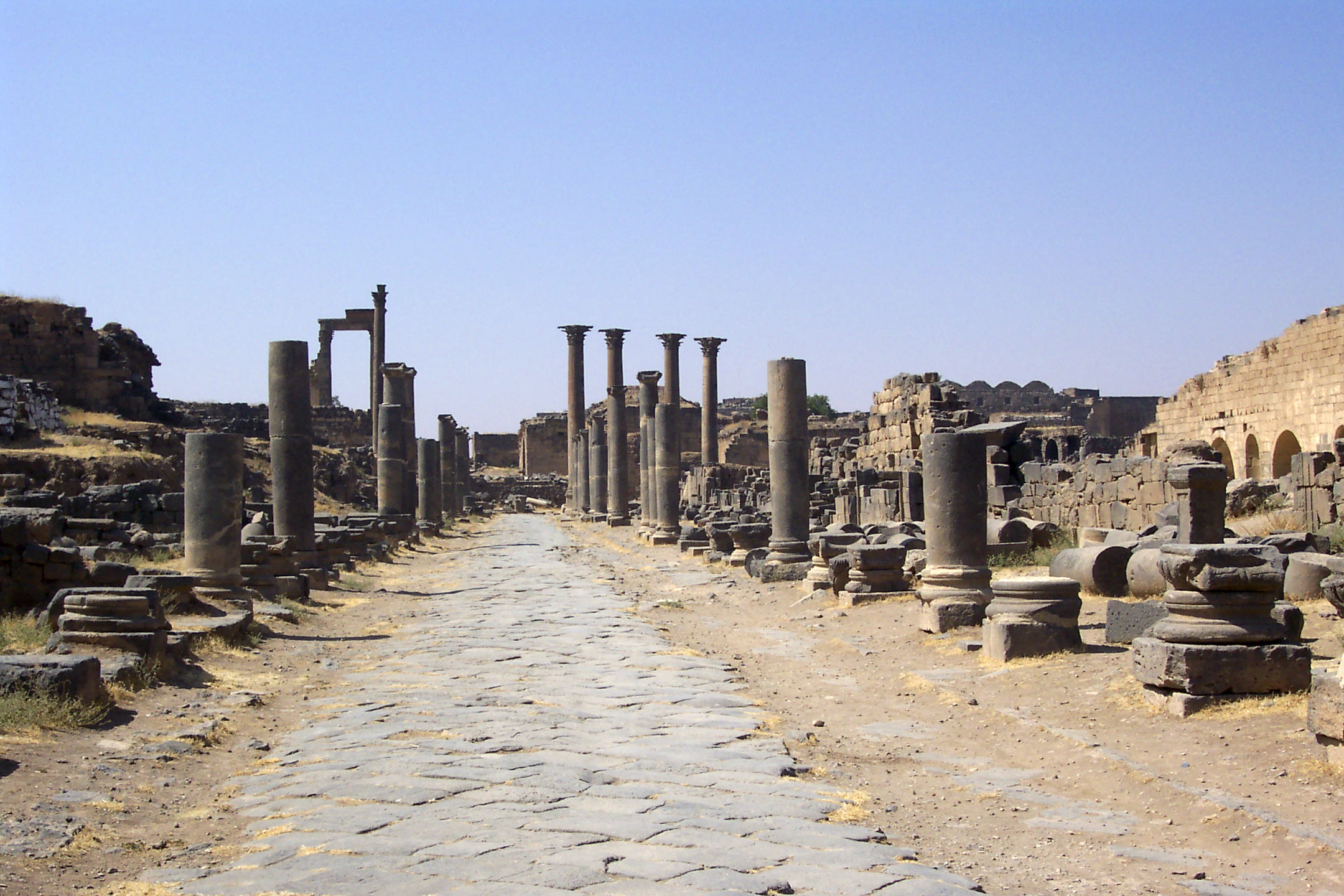 Decumanus Maximus in Bosra, Syria